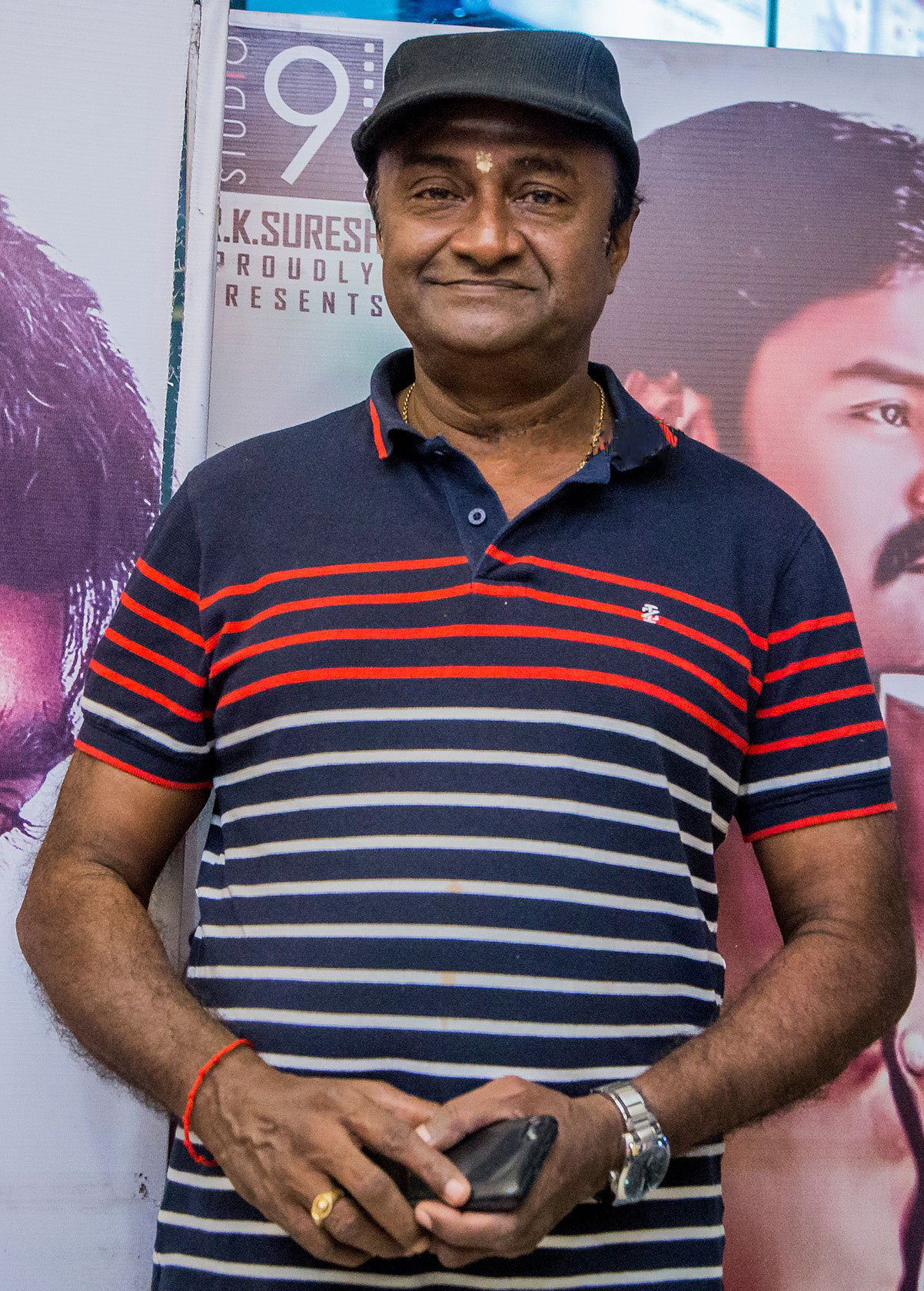 MS Bhaskar at Dharmadurai Success Meet